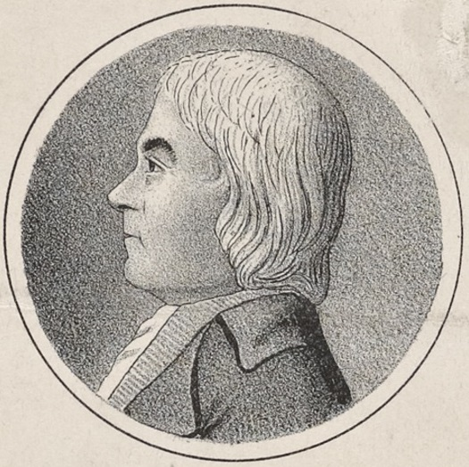 Peter Silvester, Congressman from New York